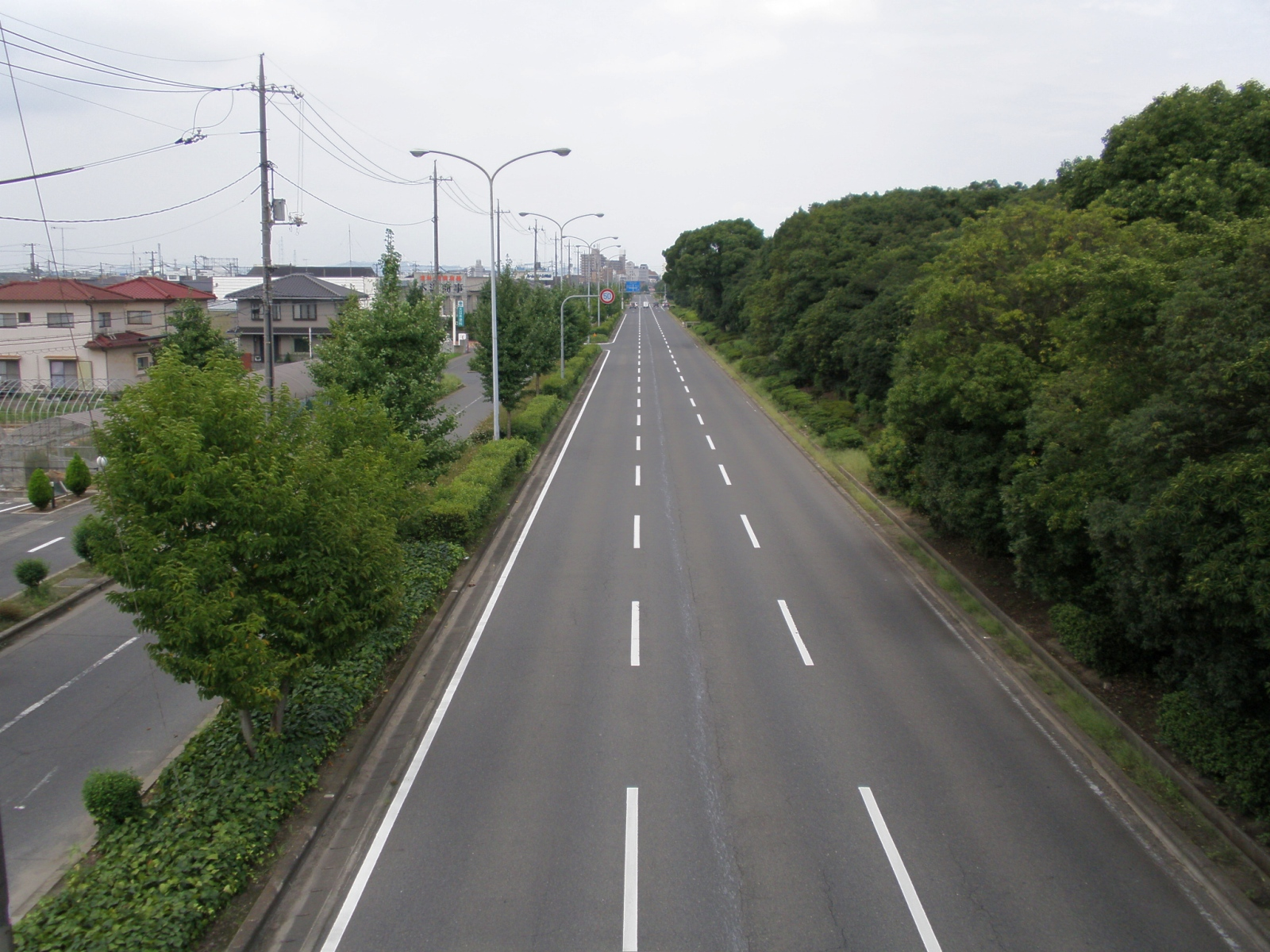 Okayama Prefectural Road No.428